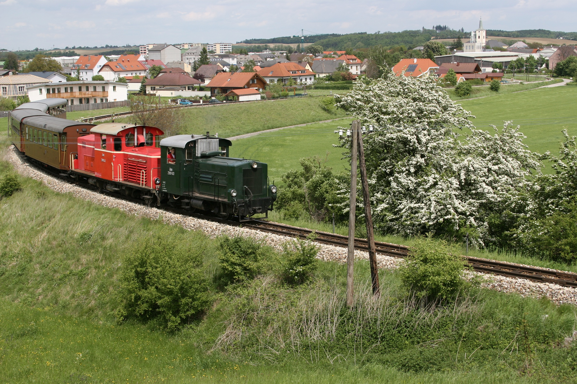 Special train leaving Ober-Grafendorf on the Mank branch of the Mariazellerbahn. Engines are 2190.03 and 2091.11.